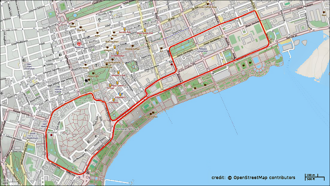 Baku Formula 1 Street Circuit 2016. Revised layout per official venue web site: (event-guide/circuit-map), which moves turns 3 and 4 one city block west of the previously published layout.